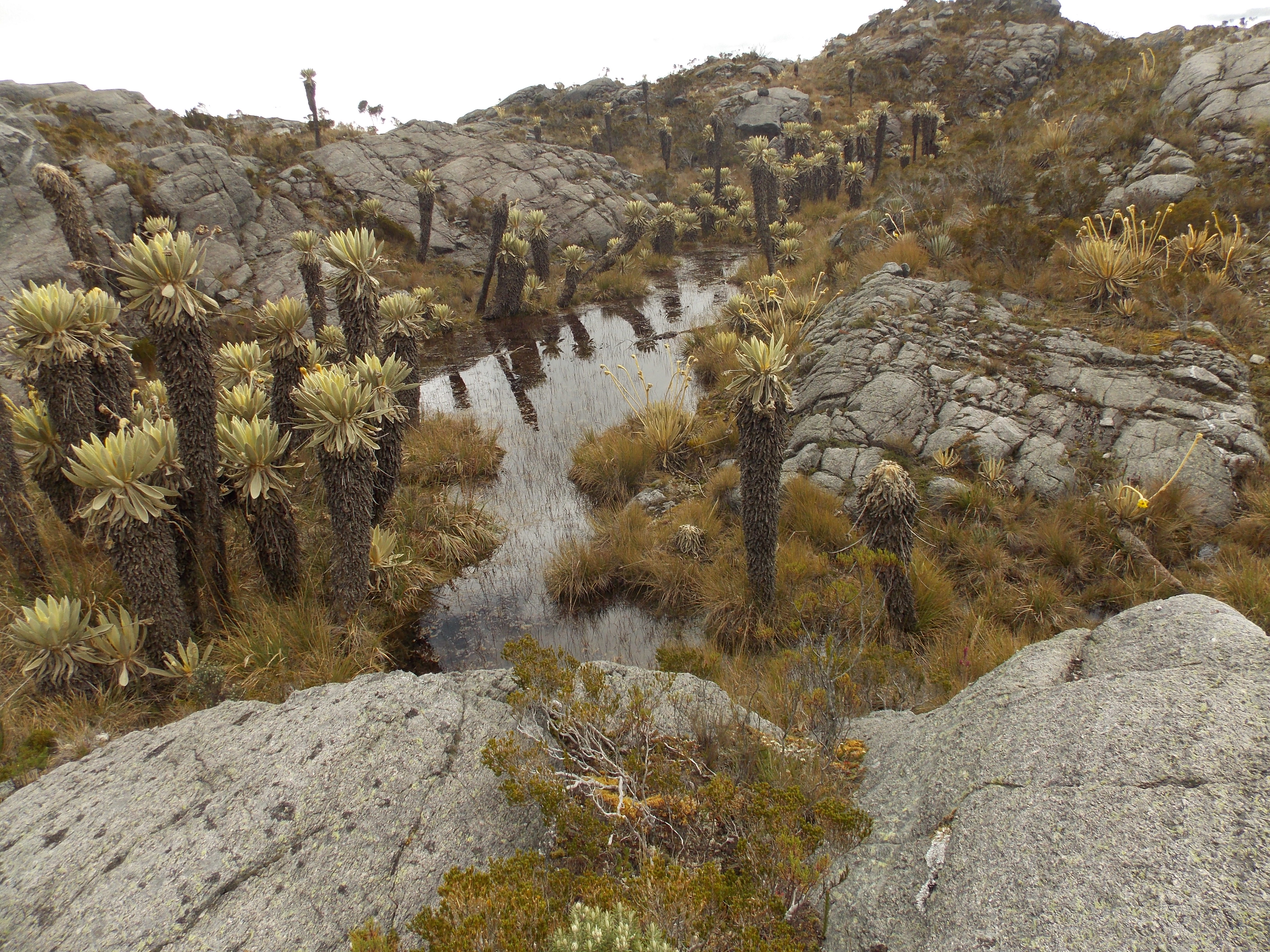 Paramo del Consuelo, Boyacá, Colombia